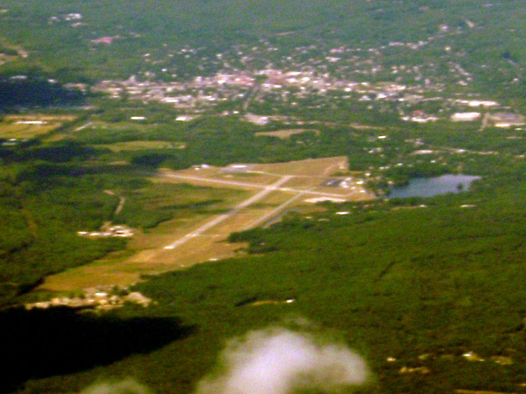 Dilliant-Hopkins Airport at Keene, NH, USA.